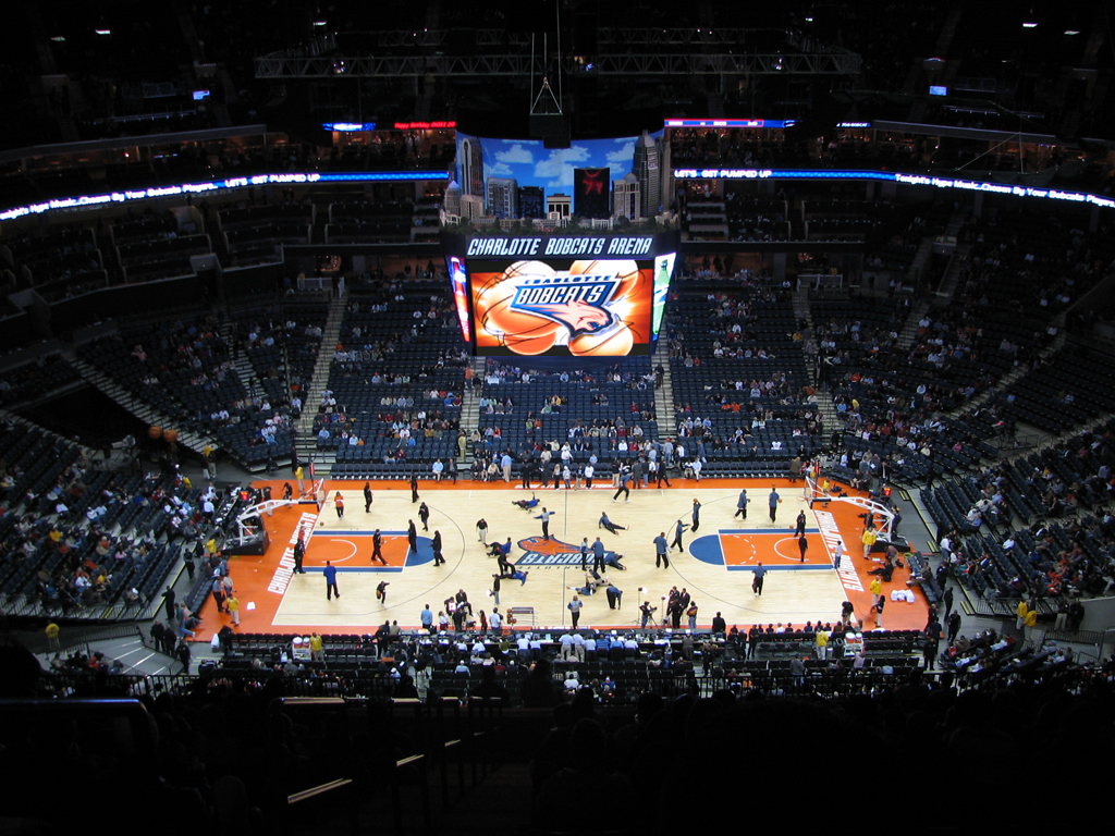 Photo taken November 23, 2005 by user Geologik. Canon S2 IS.